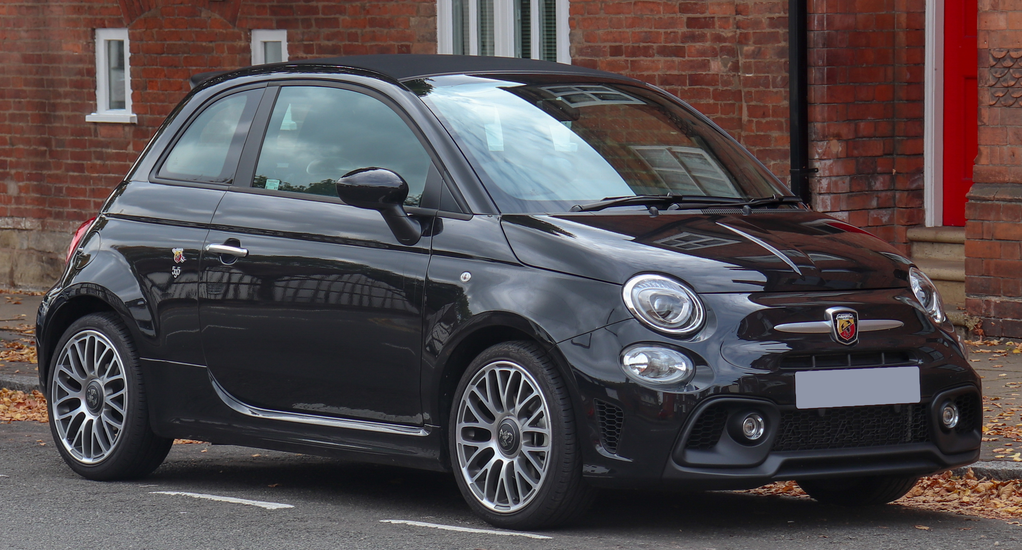 2018 Abarth 595C 1.4 Front Taken in Warwick